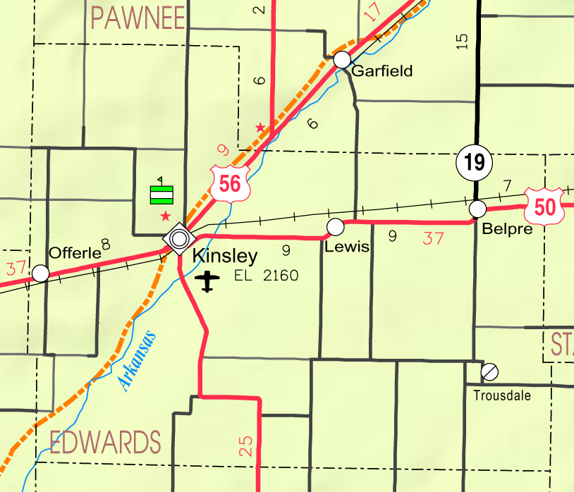 This map of Edwards County, Kansas, USA, is copied at a resolution of 300 pixels/inch from the original PDF file.